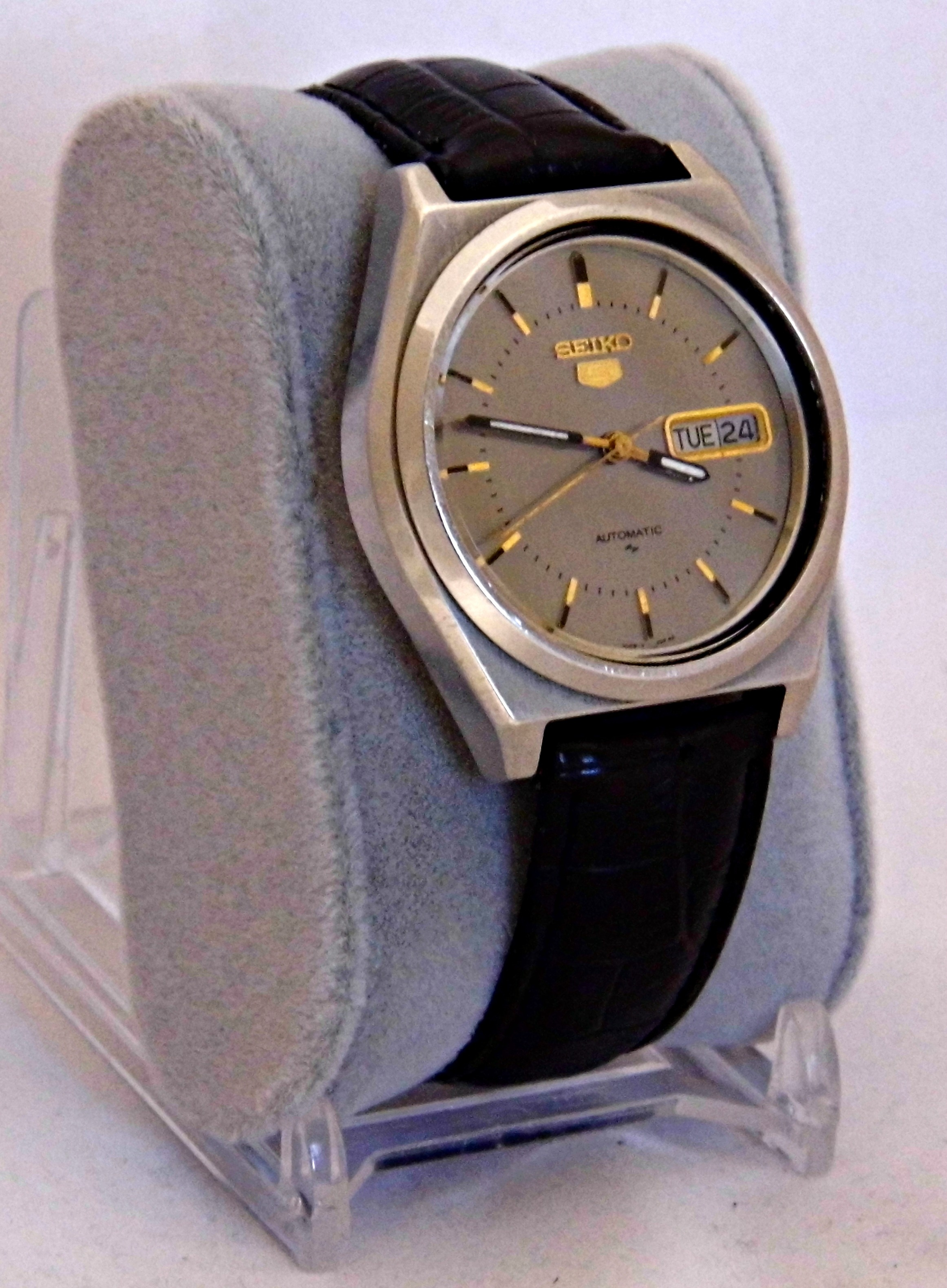 Vintage Seiko 5 Men's Automatic (Self-Winding) Wristwatch, Day-Date, Made In Japan